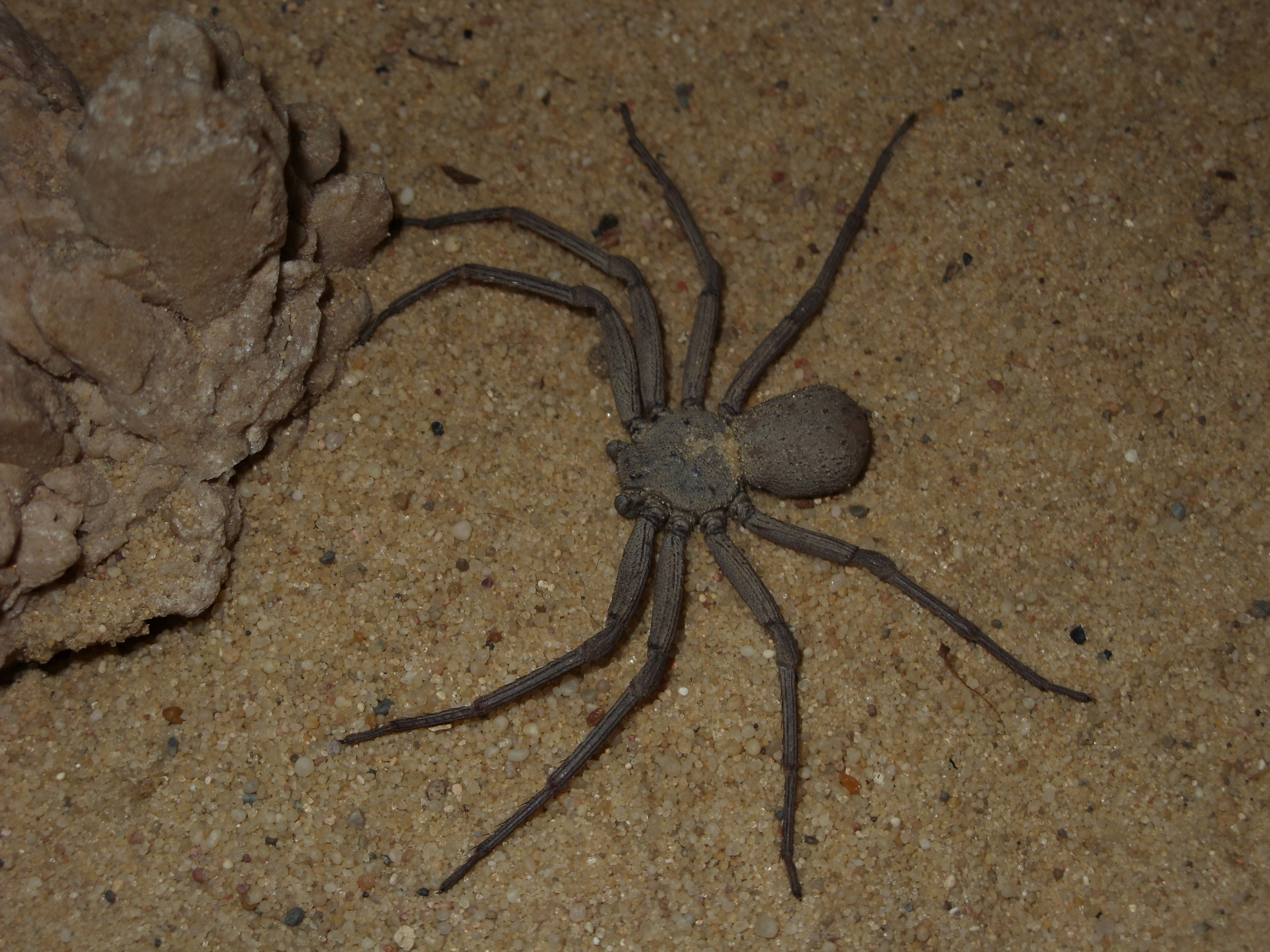 Sicarius levii female